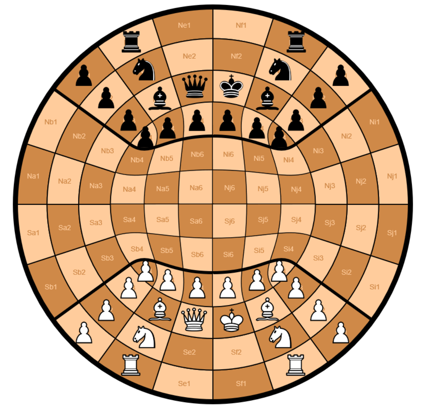 Thrones Chess, a Chess Variant played on an unusual Board. It's shape is a combination of Circular and Square Boards, thus the name CirSquare Board. Shown on the diagram the initial setup of the Classic pieces. There are 4 free squares in each side for additional pieces (Classic or Fairy Chess pieces).